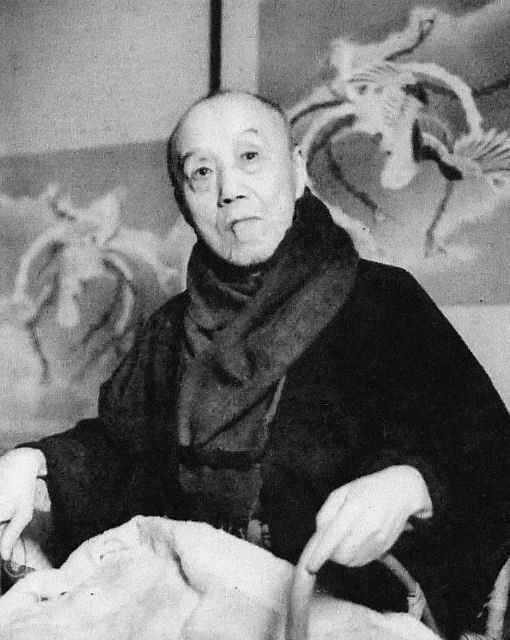 Jokan Kineya II